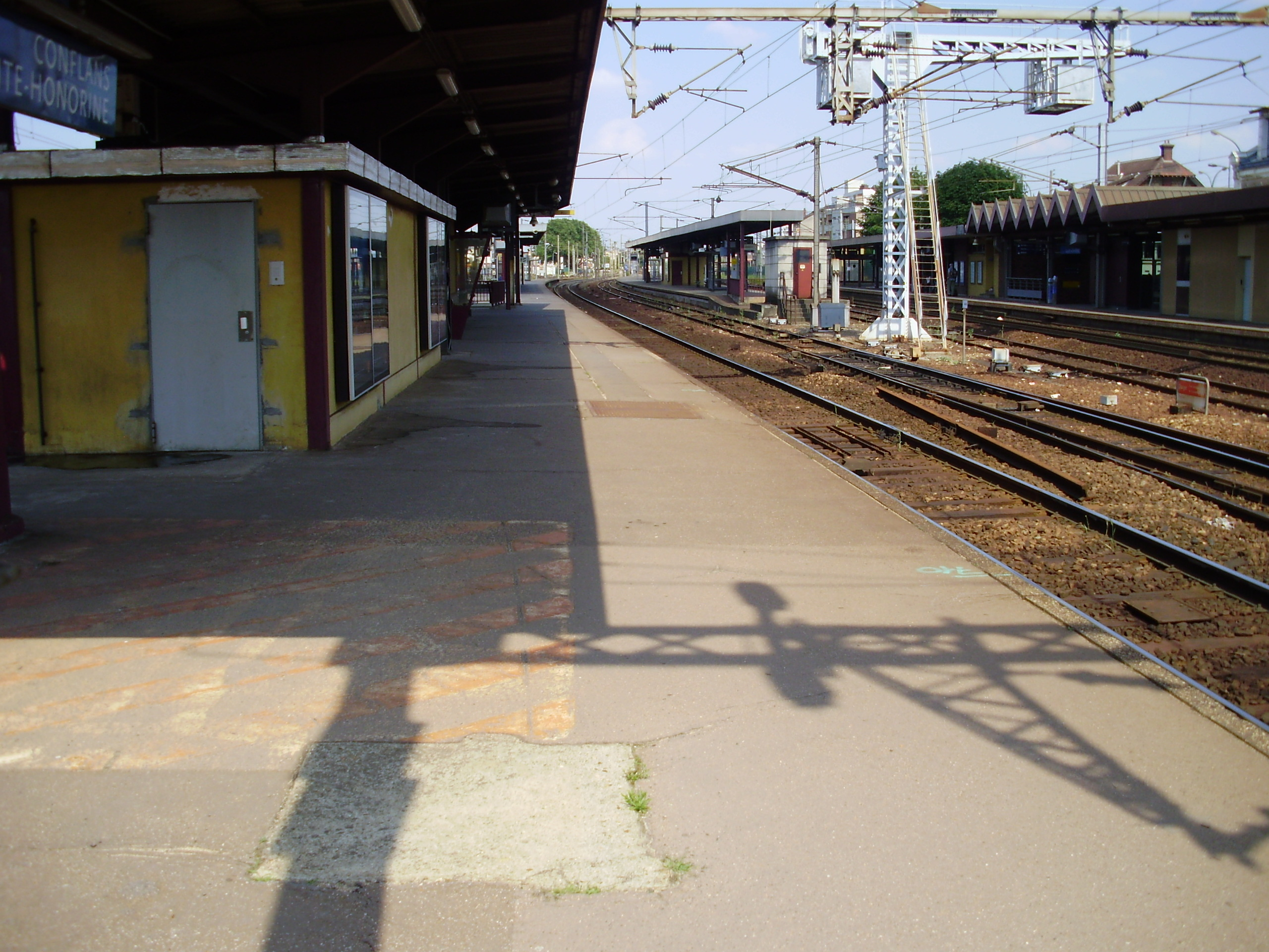 Conflans-Sainte-Honorine station, Yvelines, France (view towards Paris from the platform of track 2 ... to Paris)